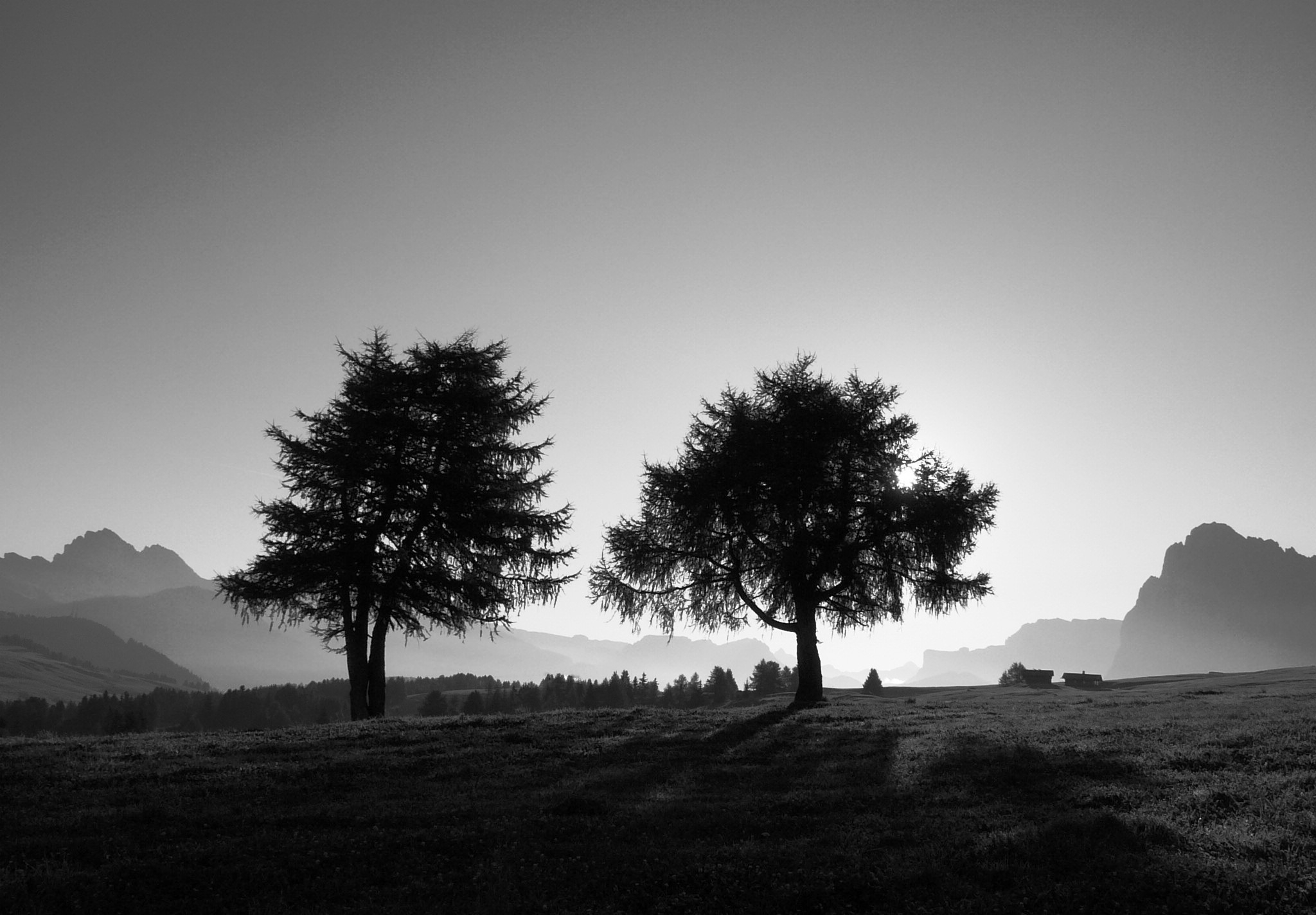 Some European Larches (Larix decidua) at dusk on the Siusi alp, South Tyrol, Italy near the Sassolungo range